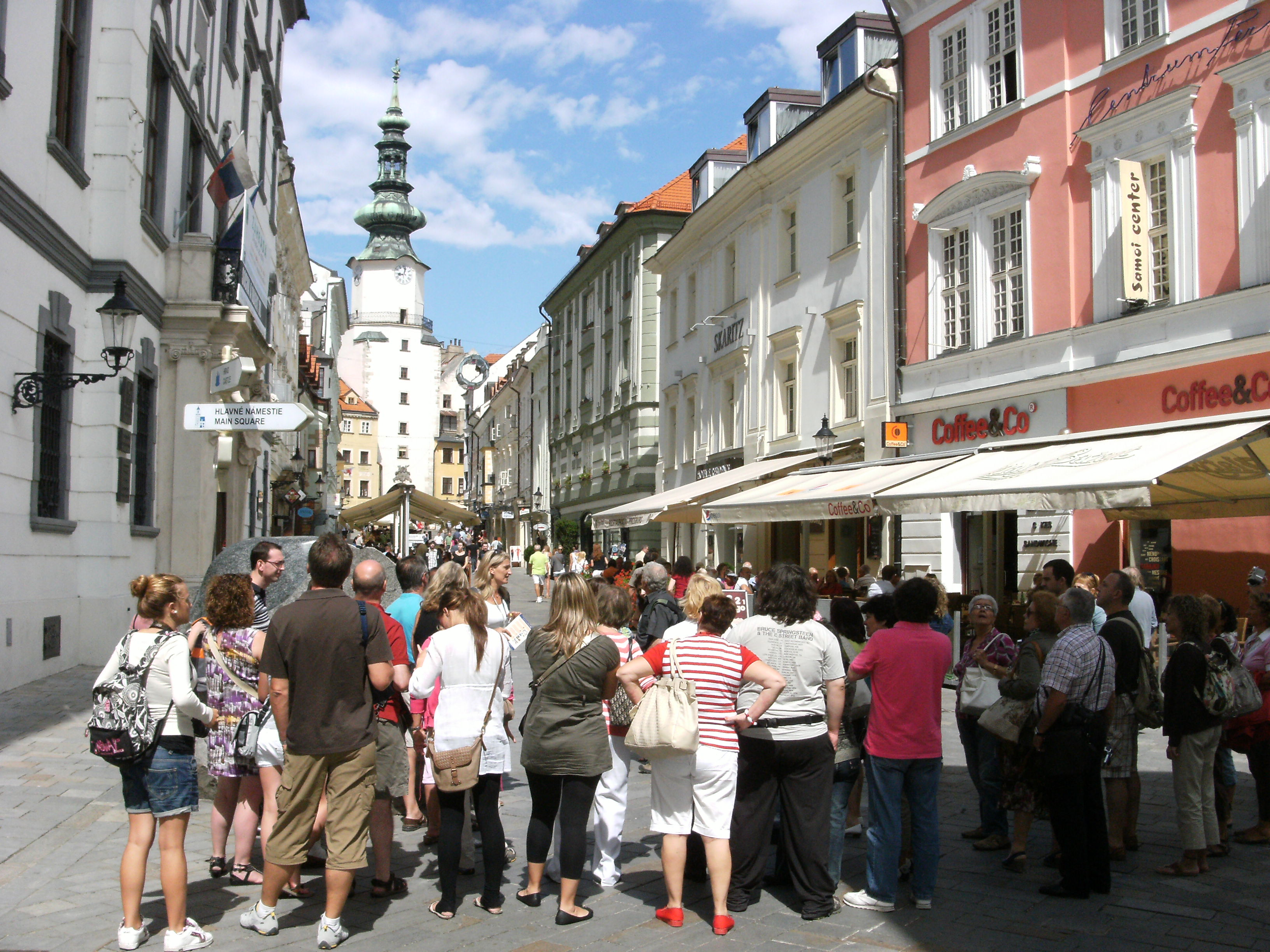 Group of tourists on street in Bratislava.